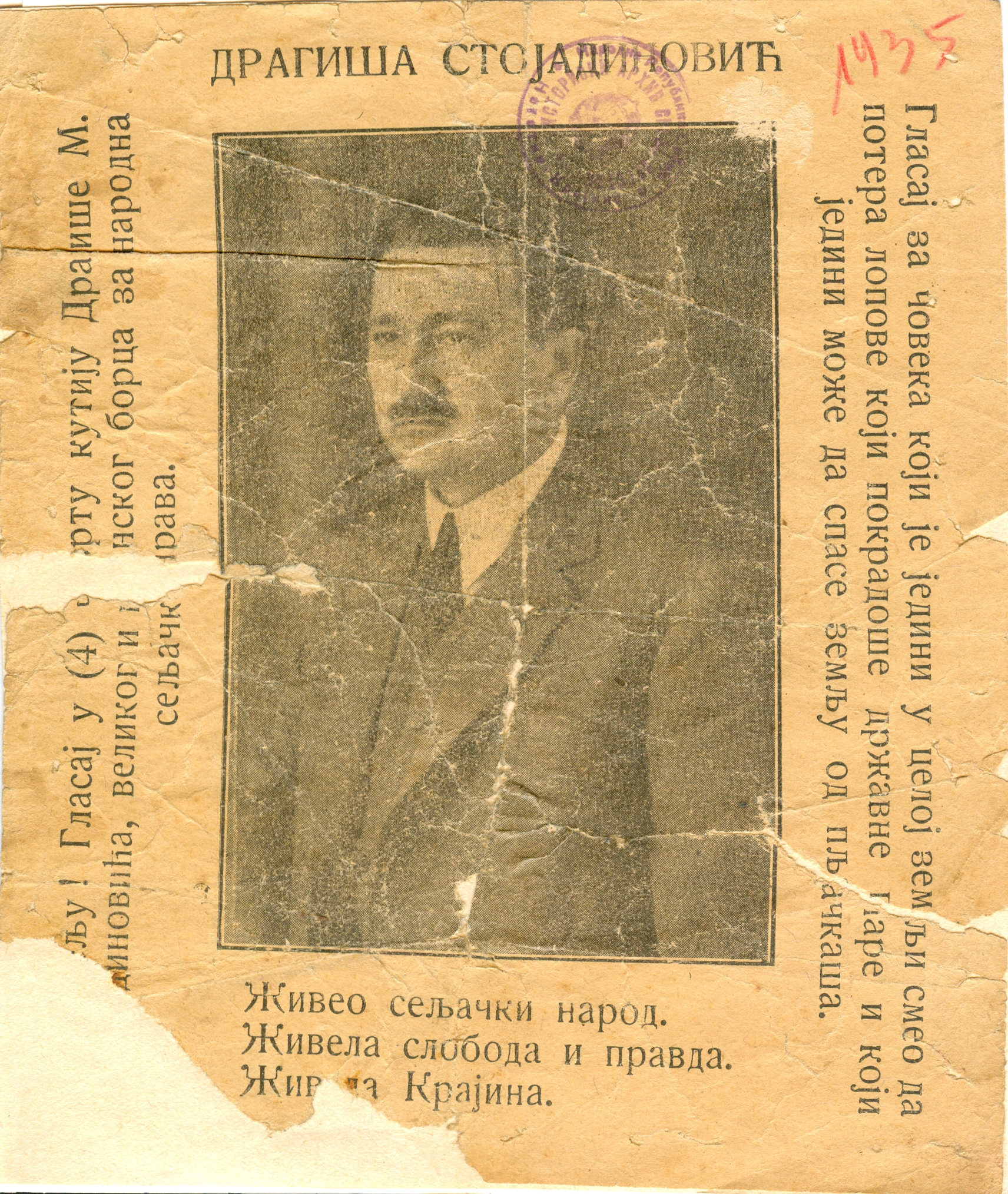 Drasica Stojadinovic's poster for the 1935 elections Srpski (latinica): Predizborni plakat Dragiše Stojadinovića iz 1935. godine